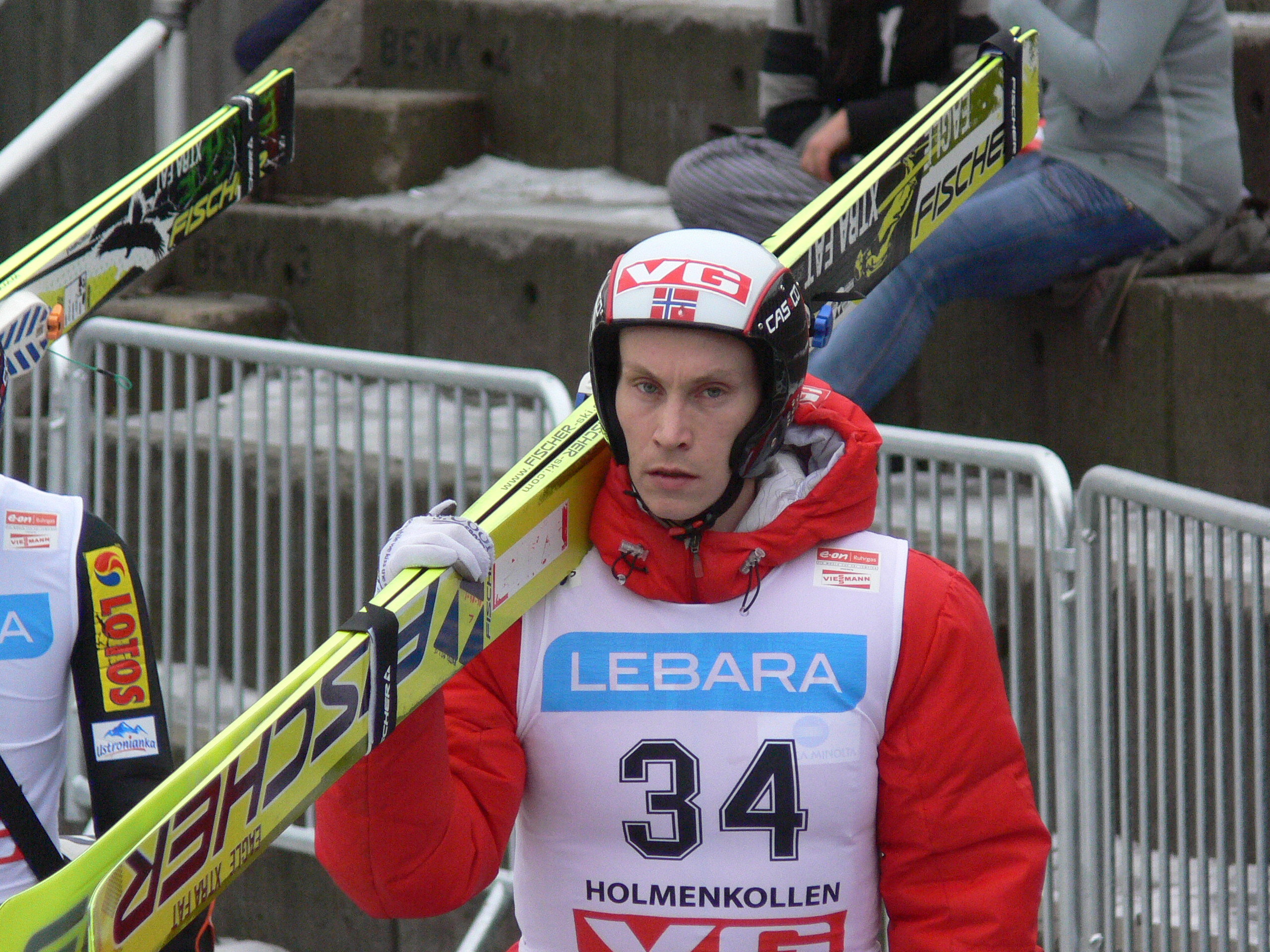 From the 2008 World Cup ski jumping event in Holmenkollen, Oslo.